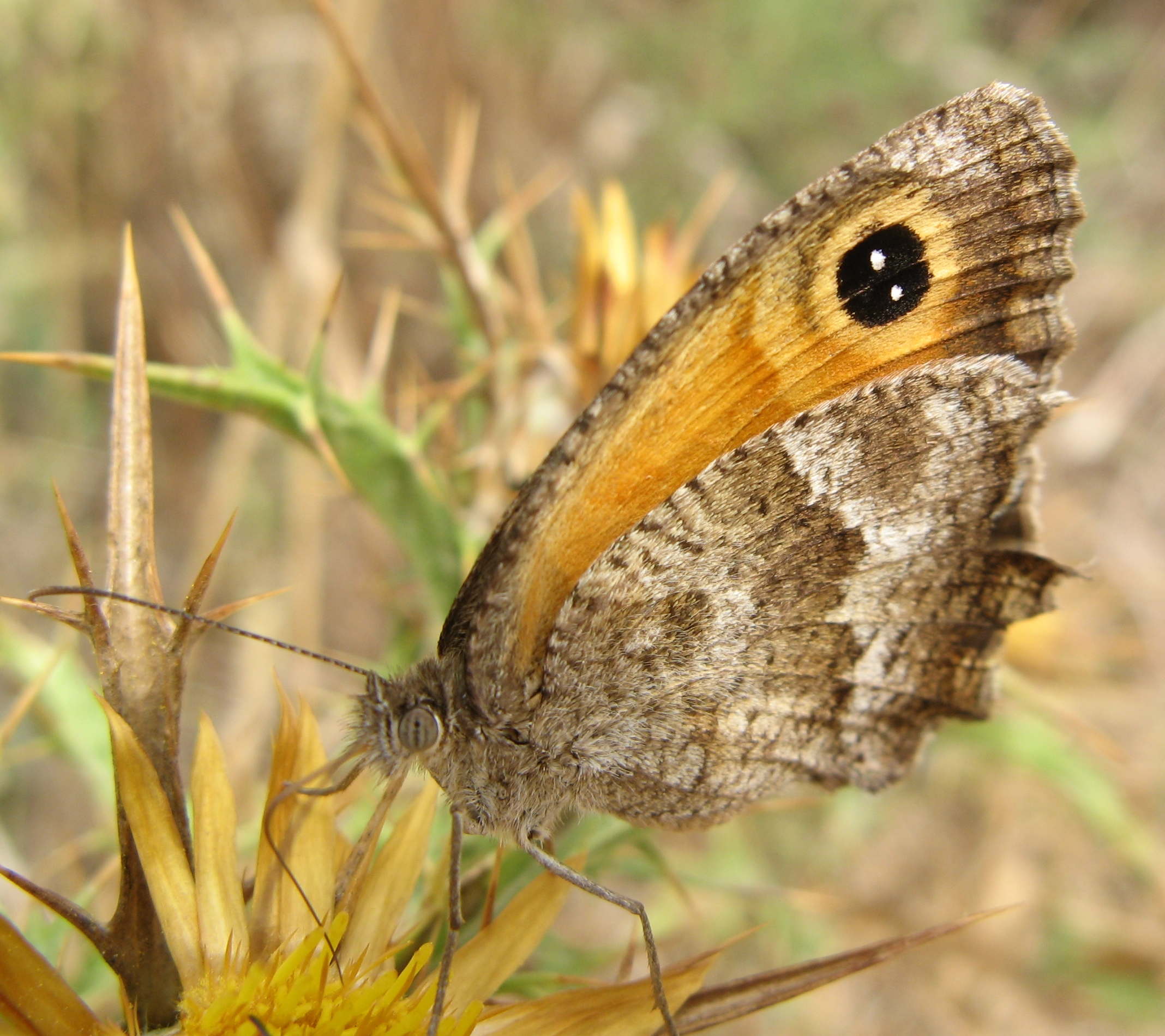 Southern gatekeerper, underside, Menorca.